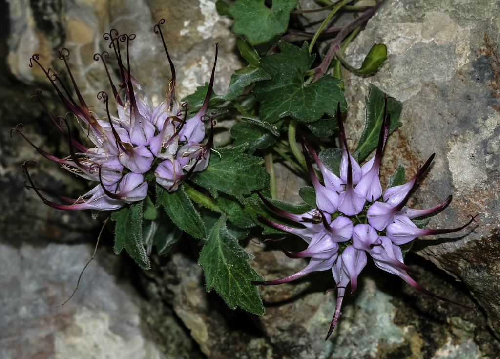 Slowenien, Julische Alpen: Botanischer Garten Alpinum Juliana in Trenta: Physoplexis comosa